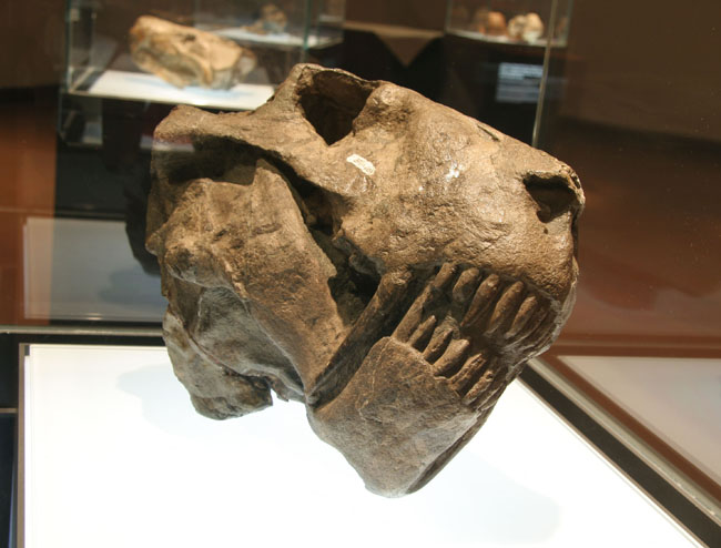 This skull (BP/1/4409) belongs to the carnivorous gorgonopsian ("terrible eye") therapsid Smilesaurus ferox which lived 255-million years ago. This fossil was collected near Pearston in the Eastern Cape. Gorgonopsians were the lions of their time. They probably held their prey down with their powerful forelimbs, then disemboweled them with their long, canine teeth.